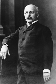 Johann Veit (1852-1917), German gynaecologist and obstetrician